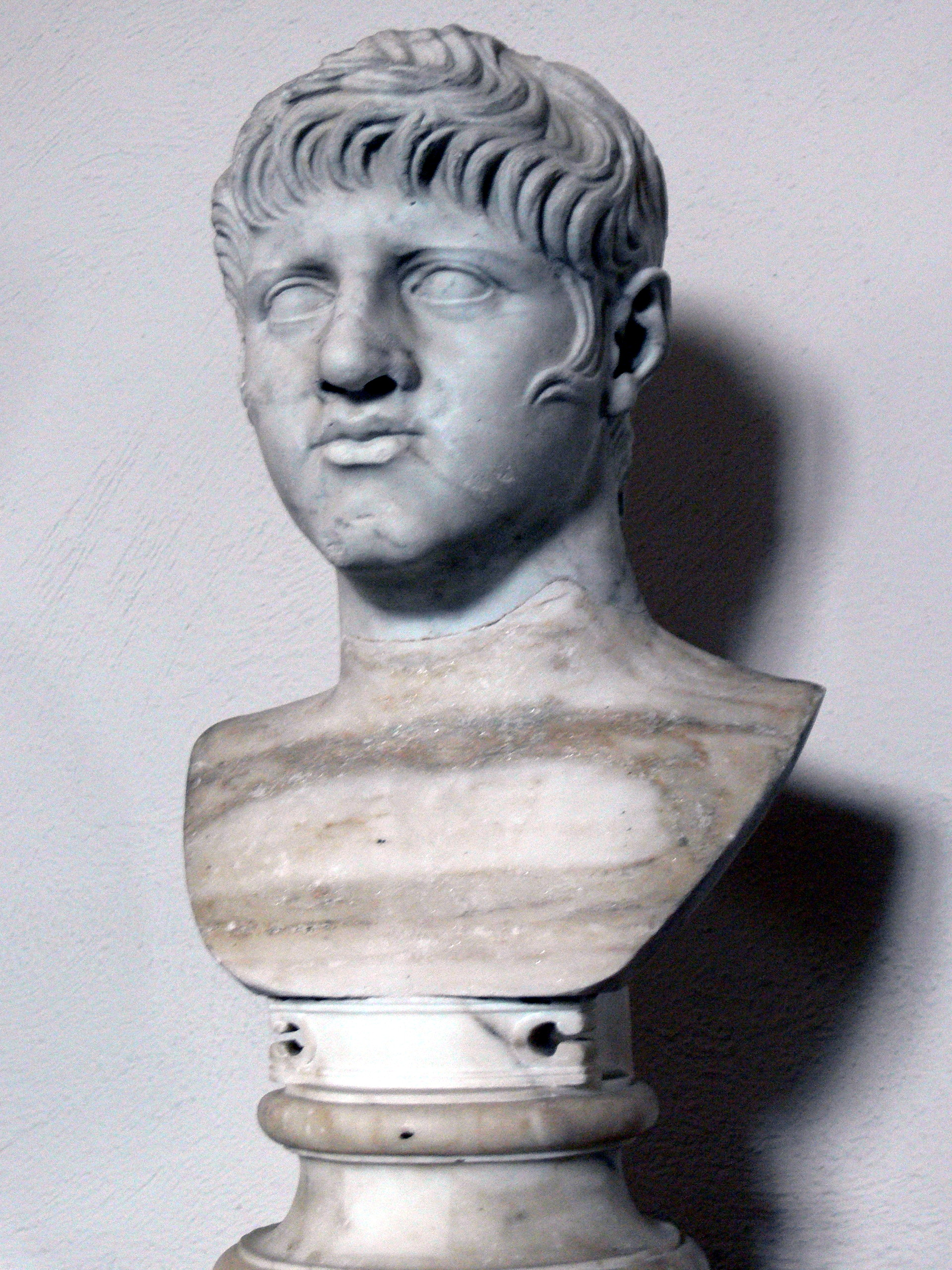 Antiques Museum in the Royal Palace, Stockholm. Bust of Roman emperor Nero